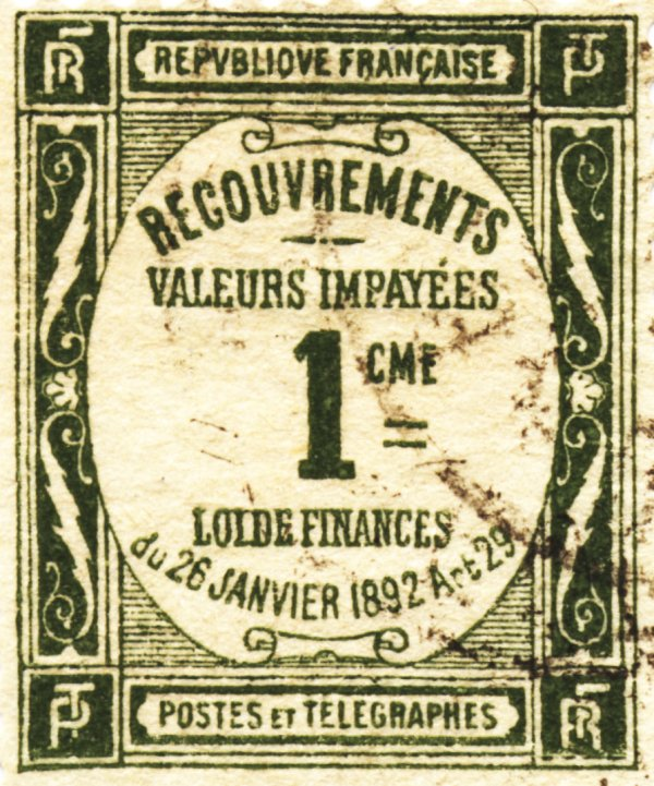 Postage due stamp of France, 1 c., collection